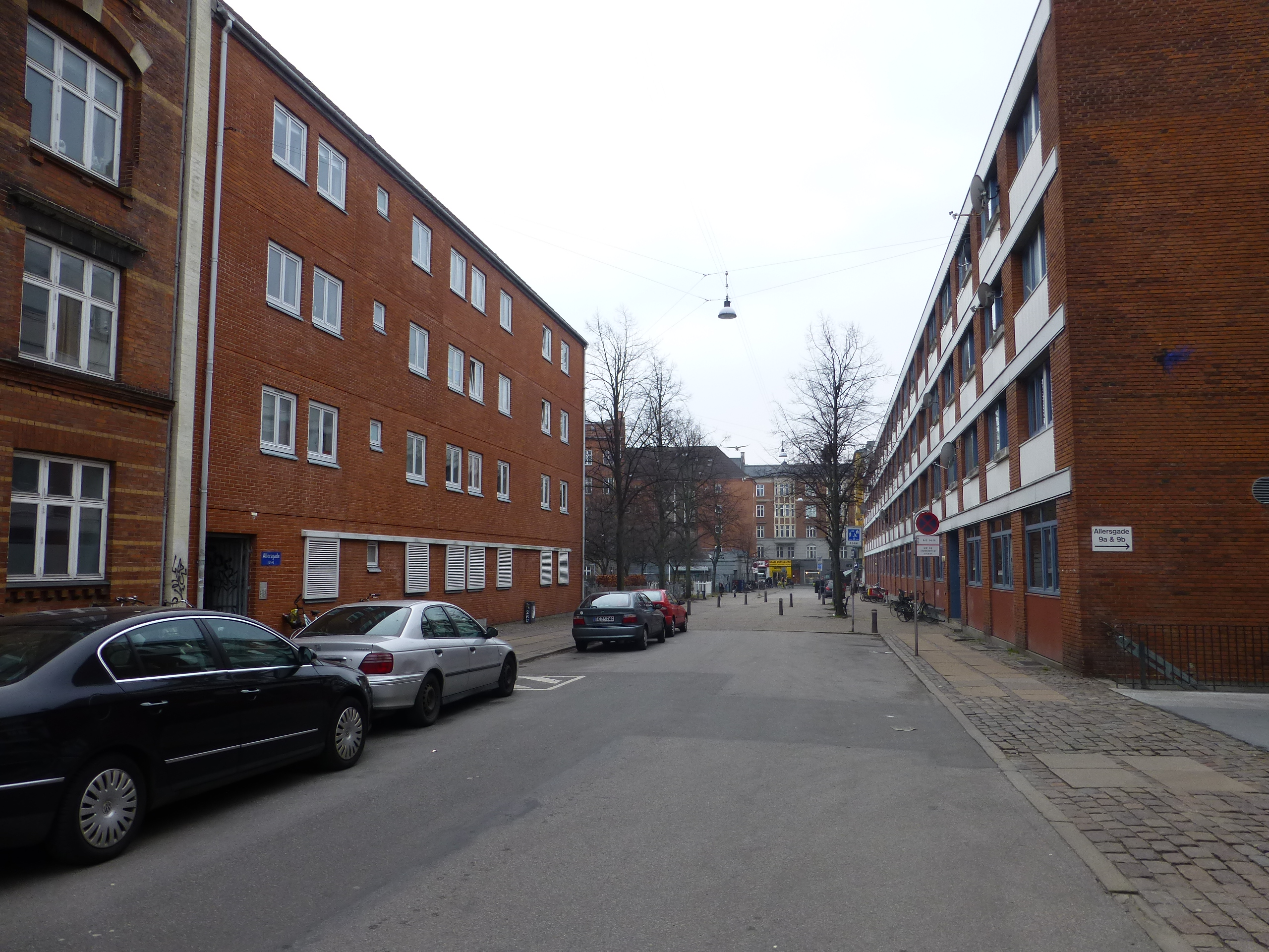 Allersgade is a street in Nørrebro in Copenhagen.